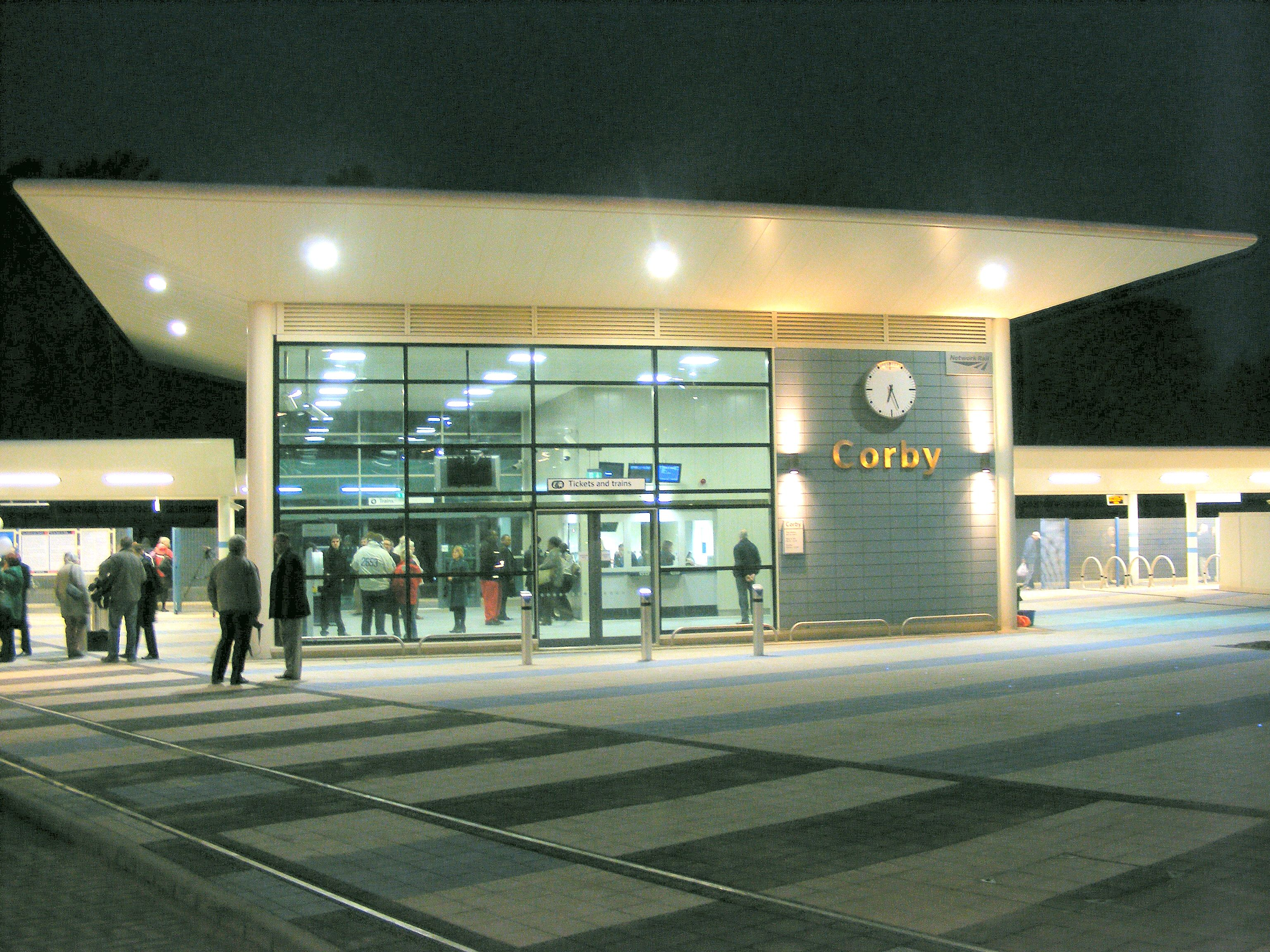 Corby railway station on 23 February 2009, the first day of train services at the new station.